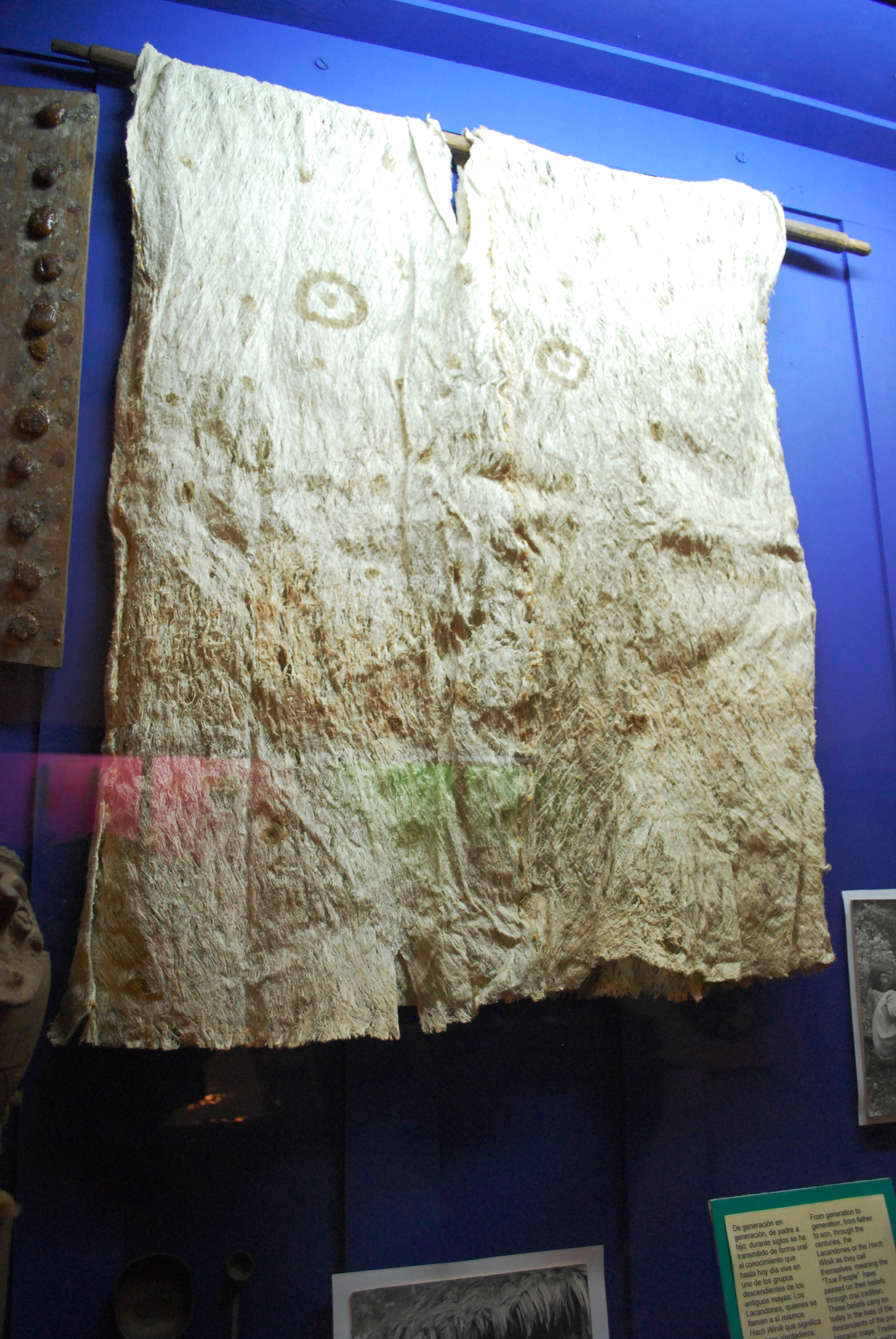 Ceremonial Lacandon tunic made from pounded bark (amate) at the Casa Na Bolom museum in San Cristobal de las Casas, Chiapas, Mexico